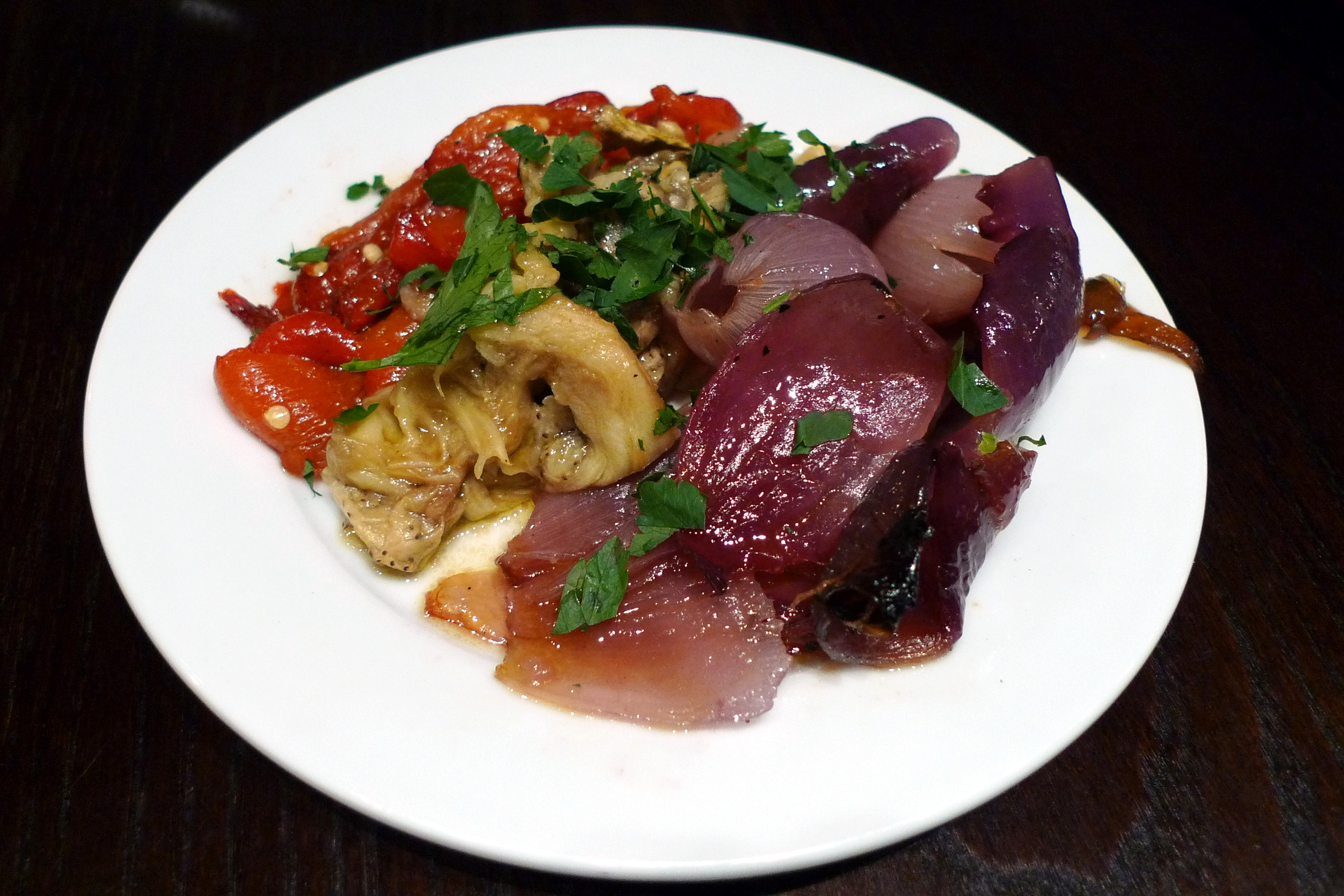 Escalivada (charcoal-grilled aubergine, pepper and onion), a bit bland to eat but attractive to look at. At Barrica, Goodge Street.